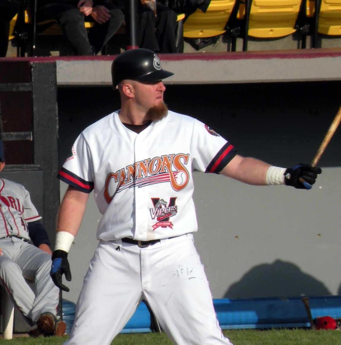 Former Major League Baseball player Kit Pellow batting during a Calgary Vipers game. The jersey is a throwback to previous team in Calgary, the Cannons.